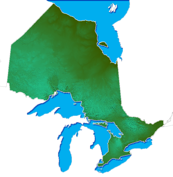 Relief of Ontario, Canada